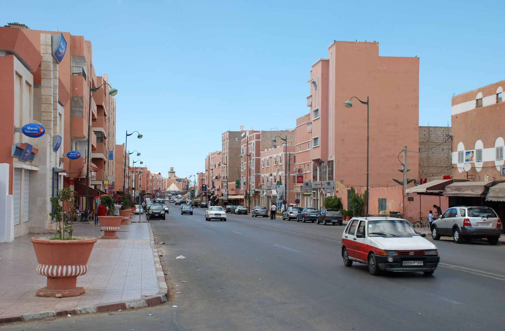 Blvd. de Mekka — El Aaiún—Laayoune, Western Sahara.